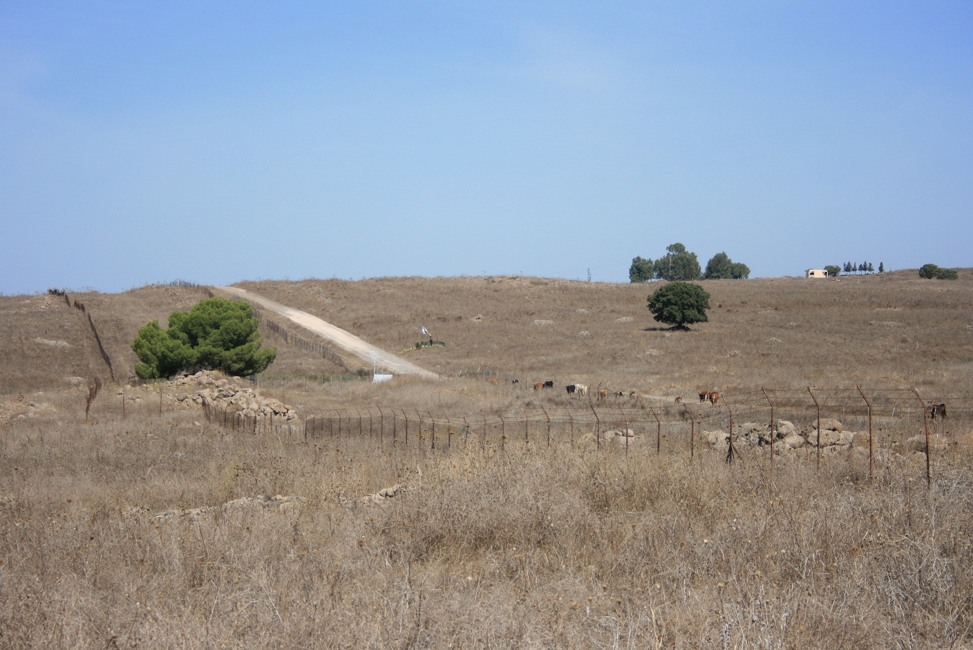 The TAP line route, central Golan Heights, Israel. This was the site of the Battle of Nafach during the 1973 war between Israel and Syria.